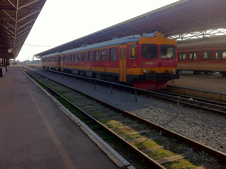 Train